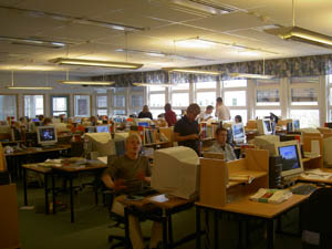 Picture taken by Robin Ramstad.